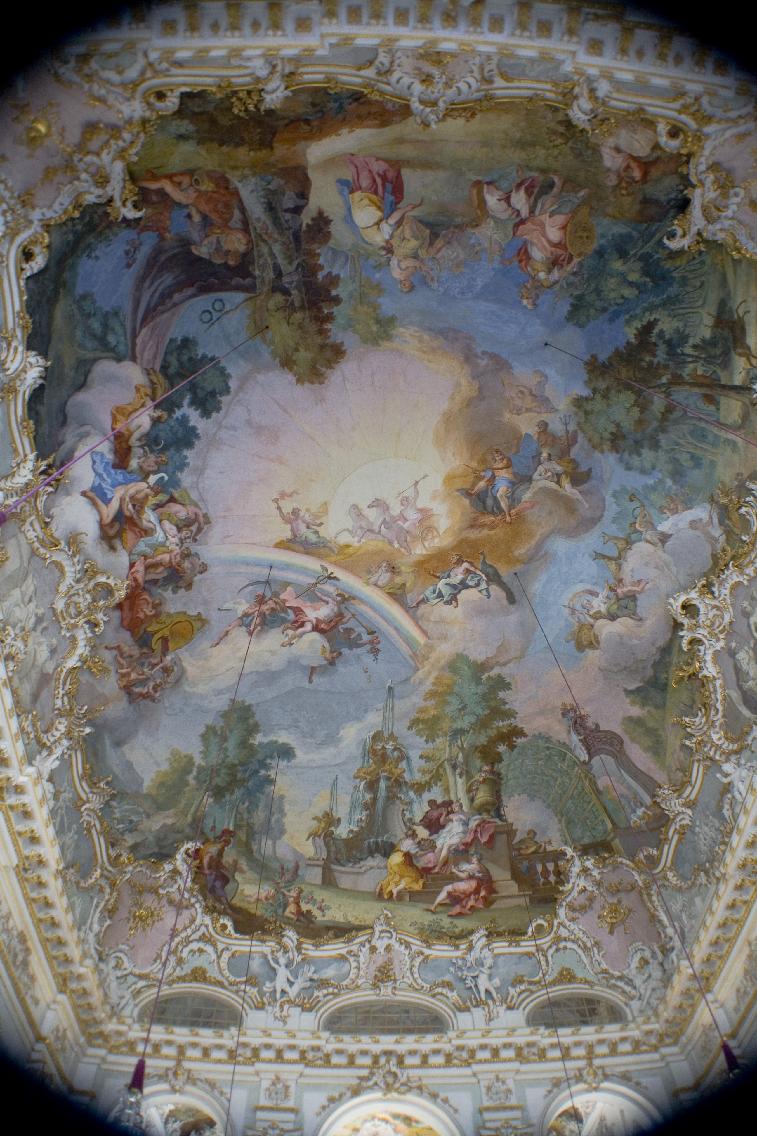 Steinerner Saal, Nymphenburg Palace, Munich, Germany